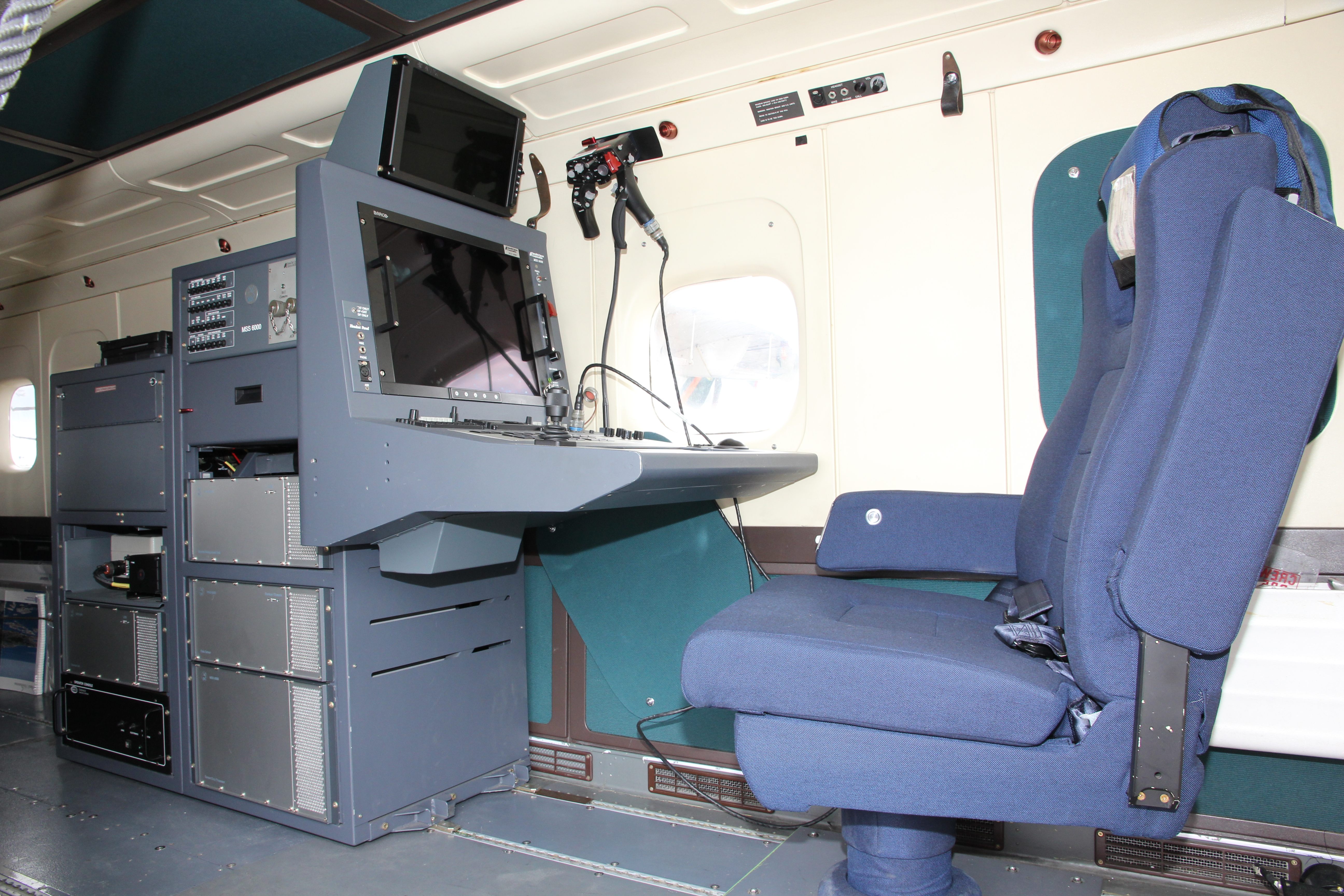 Finnish border guard Dornier Do 228 maritime patrol aircraft (OH-MVO) on display in Turku Airshow 2015. Radar console in passenger compartment.